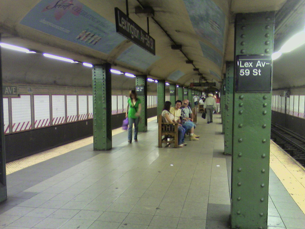 The Lexington Avenue-60th Street subway station.